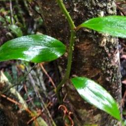 Petermannia cirrosa vine growing in Australia